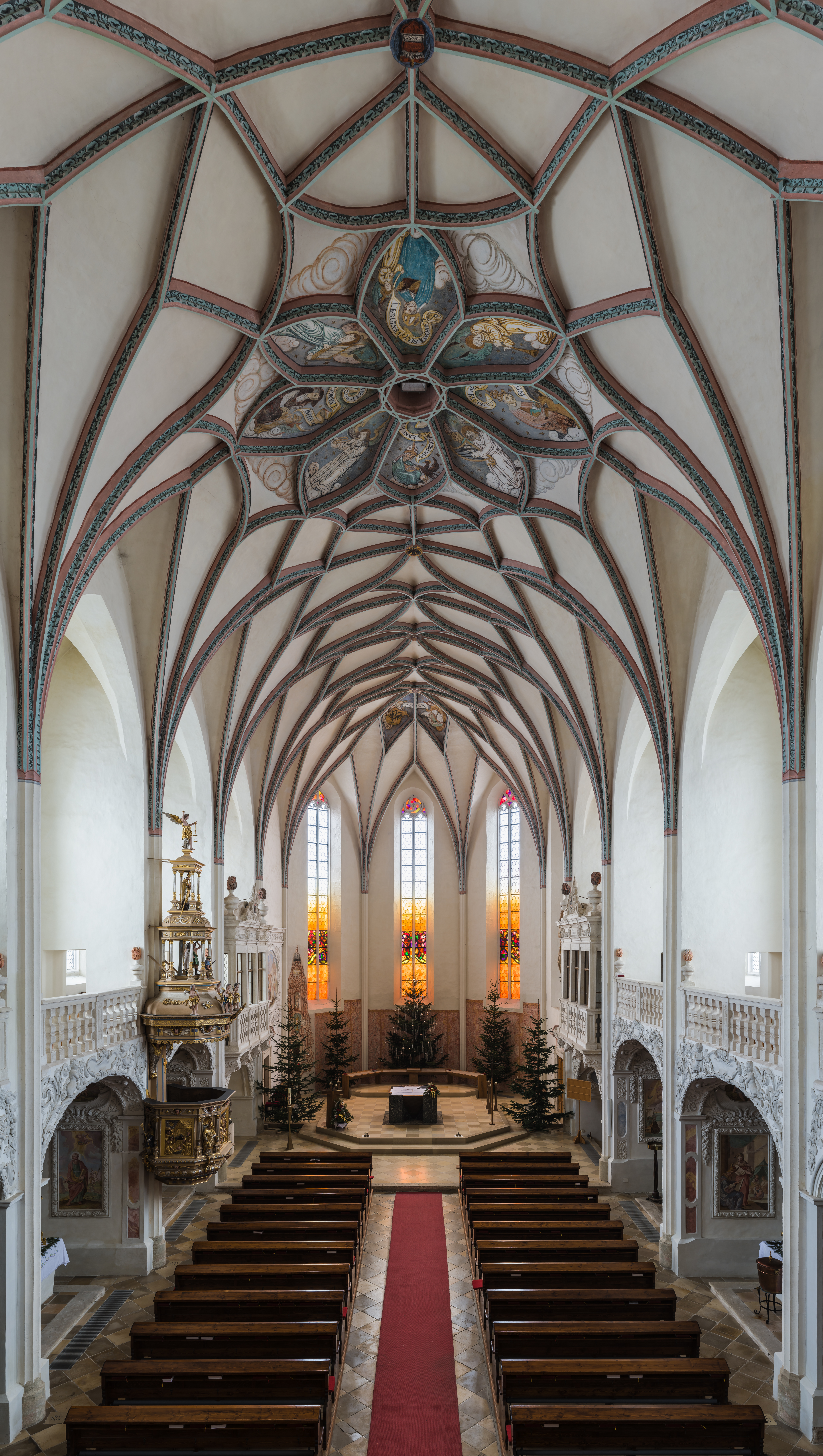 Interior of the parish church Pernegg, Lower Austria